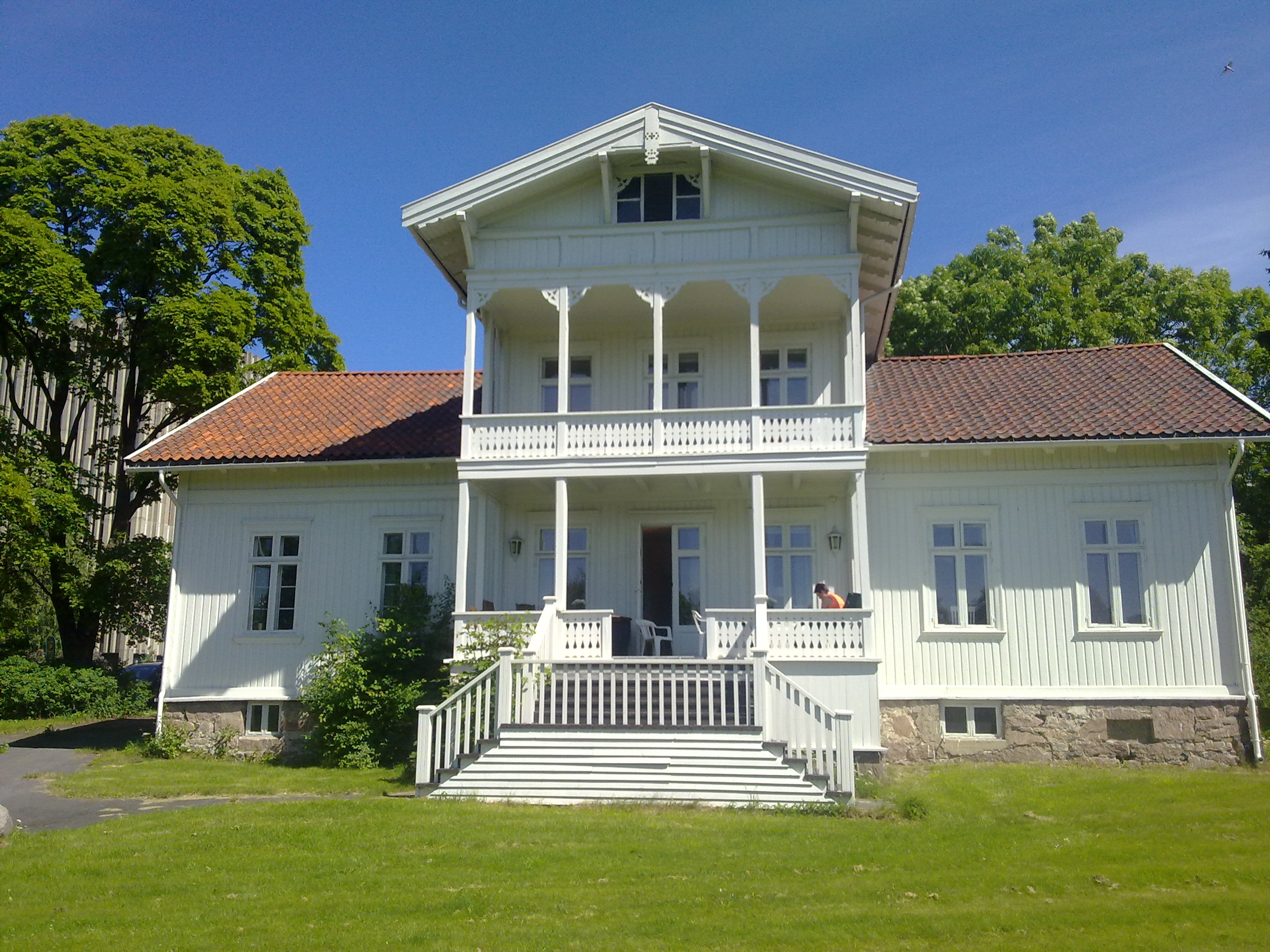 Nordre Sinsen Gård